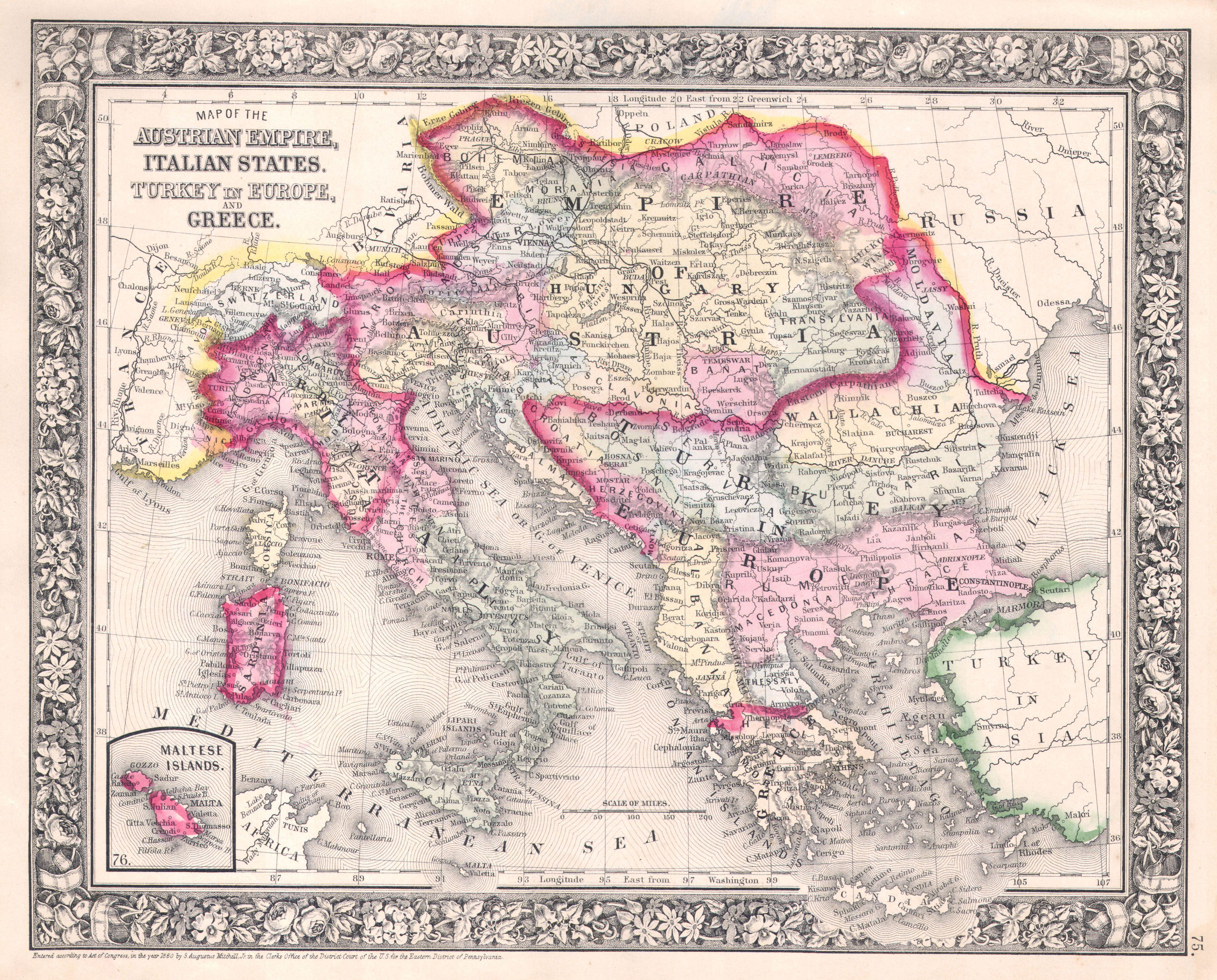 A beautiful example of S. A. Mitchell Jr.’s 1864 map of the Austrian Empire, Italy, Turkey in Europe and Greece. An inset in the lower left quadrant features the Maltese Islands. Denotes both political and geographical details. When this map was made Italy was in the midst of its struggle for national solidarity. Three powerful forces vied for control of the peninsula, the Kingdom of Sardinia, the Papal States, and the Kingdom of Naples. Two years after this map was made, in 1864, the forces of Garabaldi would finally consolidate Italy into a single nation. One of the most attractive American atlas maps of this region to appear in the mid 19th century. Features the floral border typical of Mitchell maps from the 1860-65 period. Prepared by S. A. Mitchell for inclusion as plate no. 75 in the 1864 issue of Mitchell’s New General Atlas . Dated and copyrighted, “Entered according to Act of Congress in the Year 1860 by S. A. Mitchell Jr. in the Clerk’s Office of the District Court of the U.S. for the Eastern District of Pennsylvania.